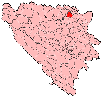 Location of Gradačac municipality in Bosnia and Herzegovina.